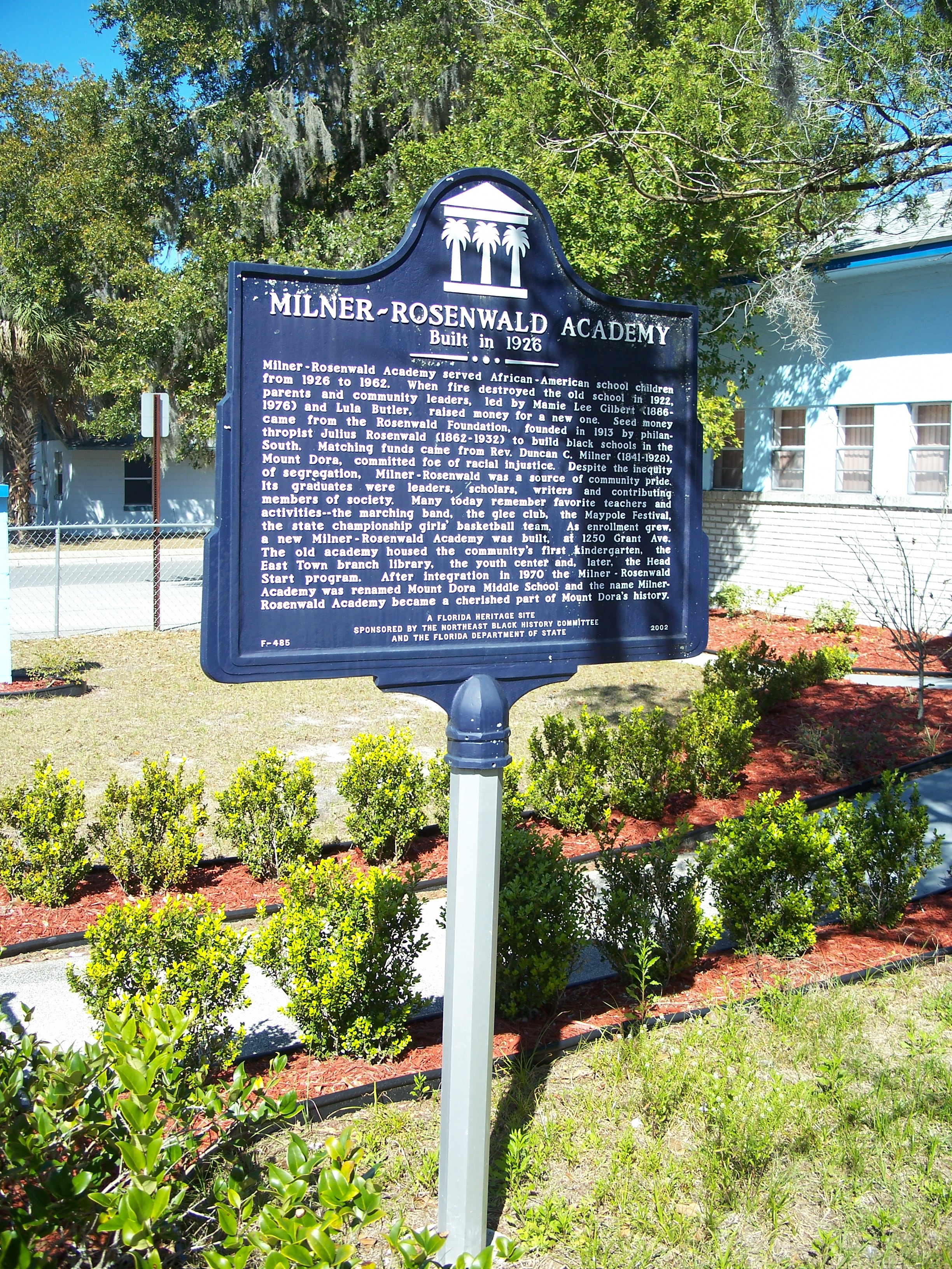 Mount Dora, Florida: Historical plaque at the Milner-Rosenwald Academy. It has a pending nomination for the National Register of Historic Places.